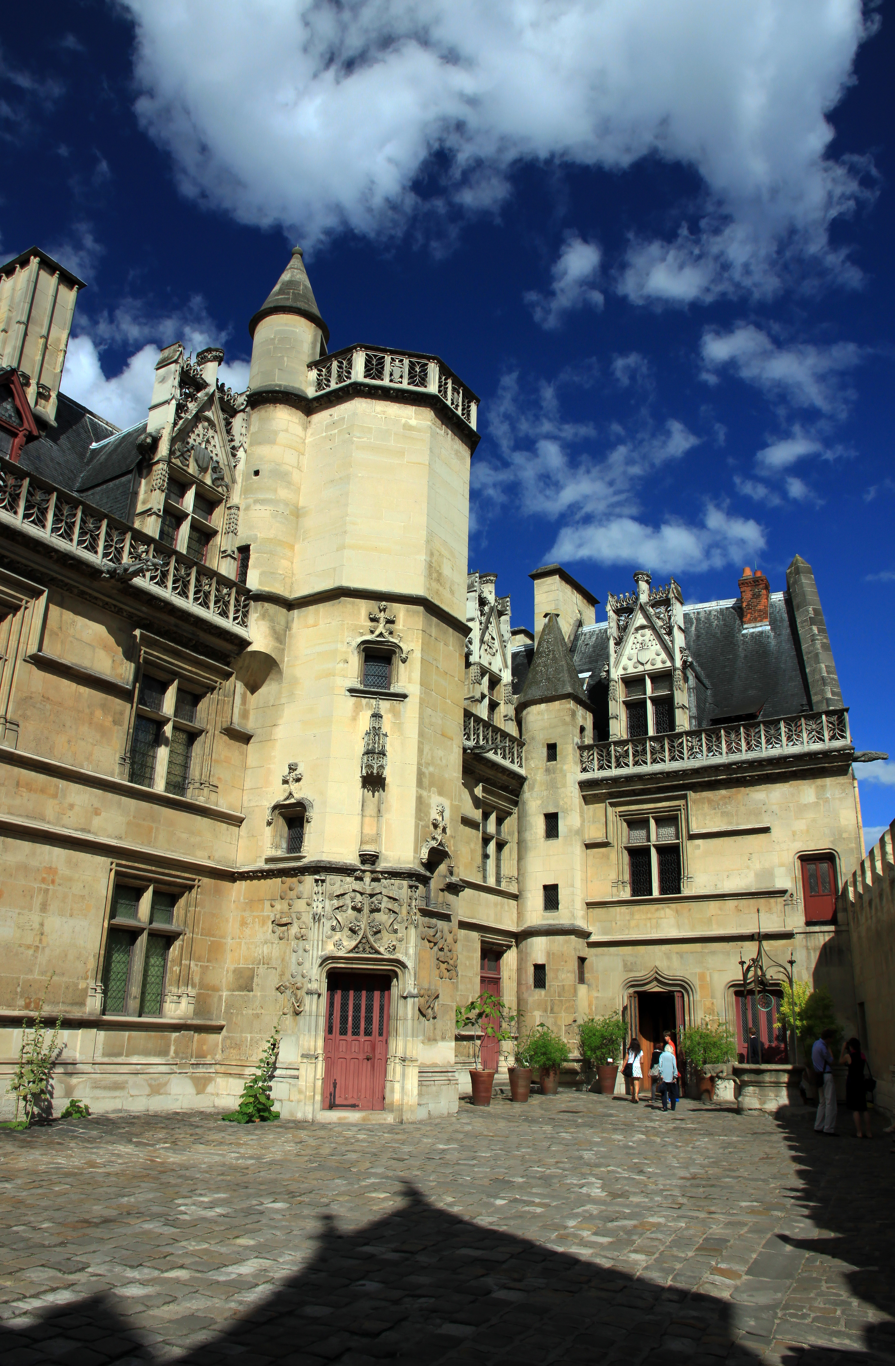 Front entrance and courtyard of the Hotel de Cluny (Musée National du Moyen-Âge), rue Du Sommerard, Paris.